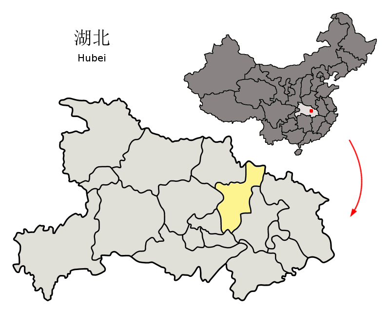 Location of Xiaogan Prefecture (yellow) within Hubei Province of China Map drawn in december 2007 using various sources, mainly : Hubei Province administrative regions GIS data: 1:1M, County level, 1990 Hubei Counties map from